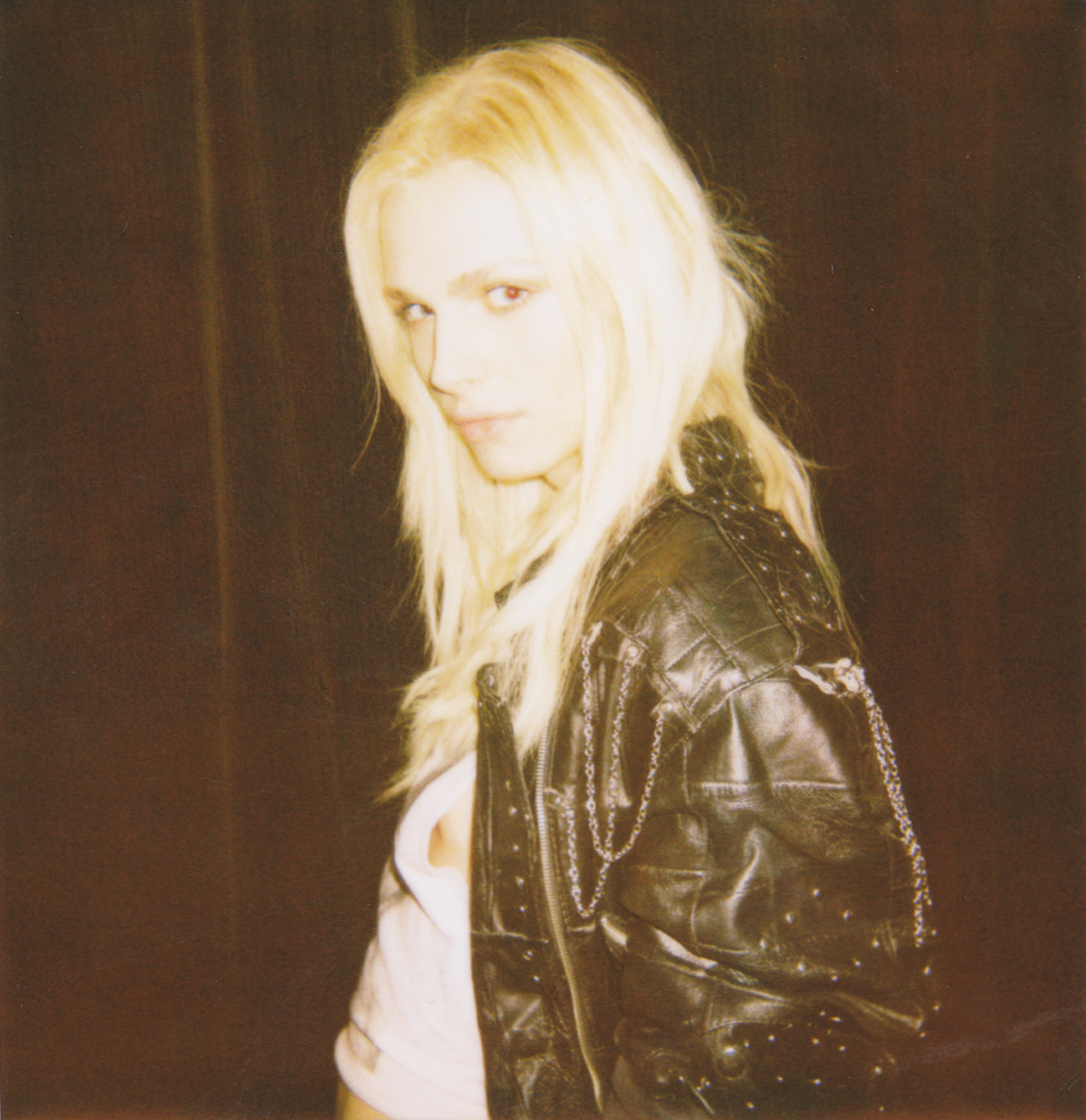 Andreja Pejić at Galore Pop-up party, New York City, Feb. 6, 2013